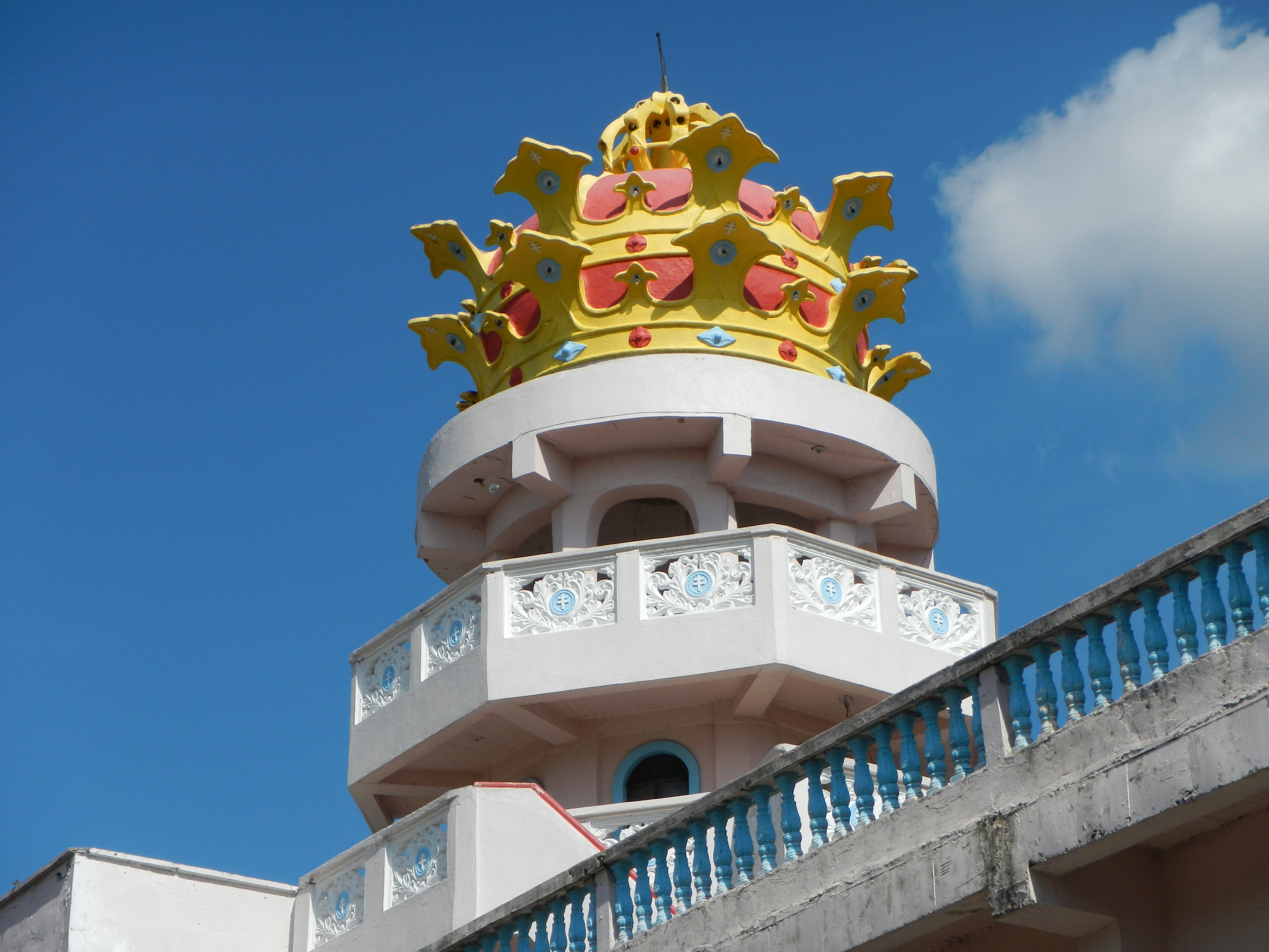 Crusaders of the Divine Church of Christ, Phils., Inc., Mona. Dr. Rufino Sarmiento Magliba, Supreme Pontiff, the Living God[1] Pura, Tarlac[2] The Crusader of the Divine of Church of Christ Philippines Incorporated (CDCCPI) was founded by Rufino Sarmiento Magliba in the Philippines. It was there during the year of 1955 in San Fabian, Pangasinan that He began His teachings of God.[3]Crusaders for the Lord By Msgr. Regalado P. Doctor September 25, 2005 The Crusaders of the Divine Church of Christ, Philippines Incorporated has its beginning in Pangasinan in coastal town of San Fabian, nestled along the waters of the Lingayen Gulf. There, the sleepy barangay Nibaliw Magliba is home to the CDCCCPI. The congregation was first organized and registered with the Securities and Exchange Commission, Manila, Philippines by Mons. Dr. Rufino S. Magliba, founder and supreme pontiff on September 27, 1955.